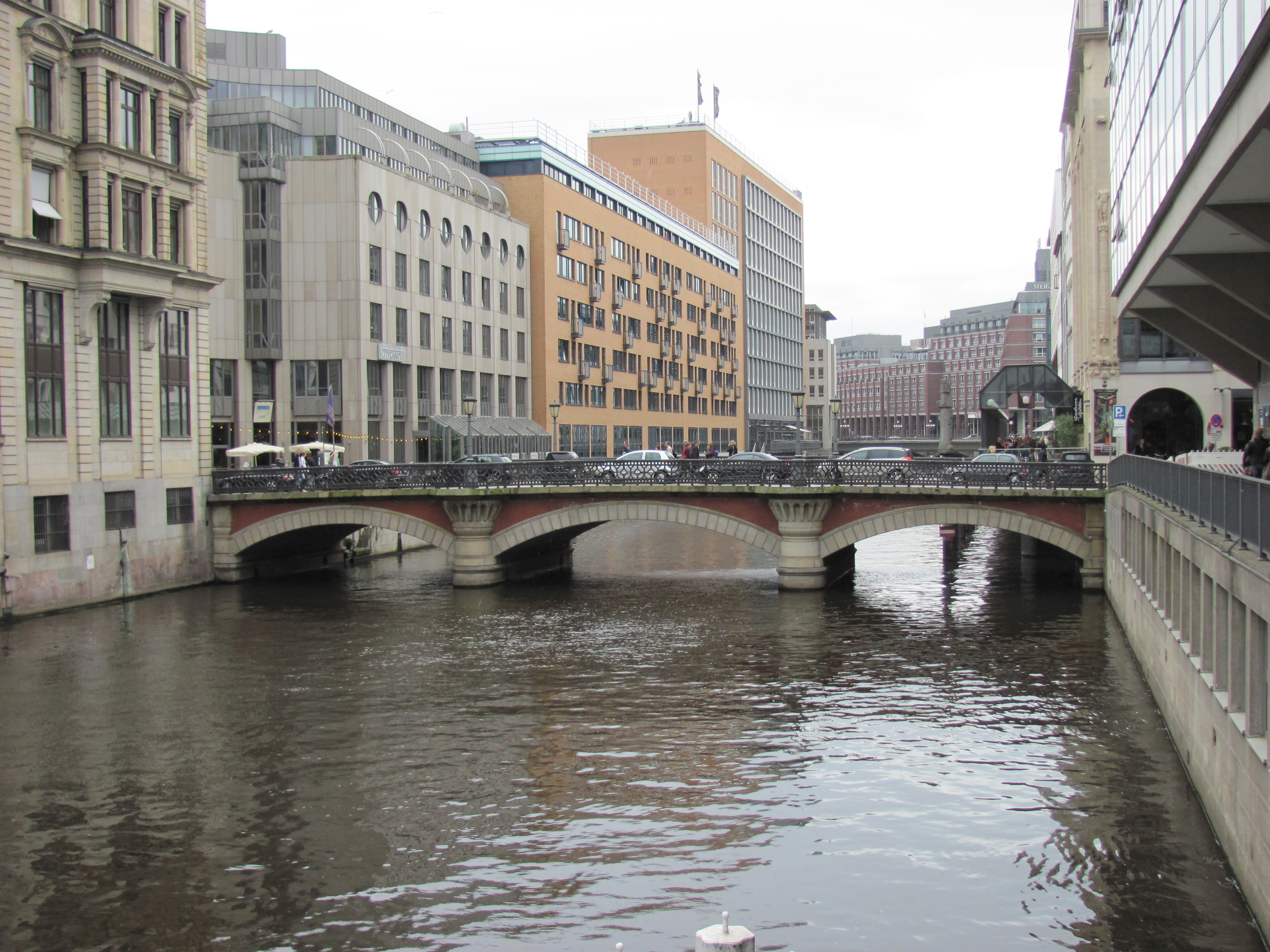 Adolphsbrücke in Hamburg, Germany